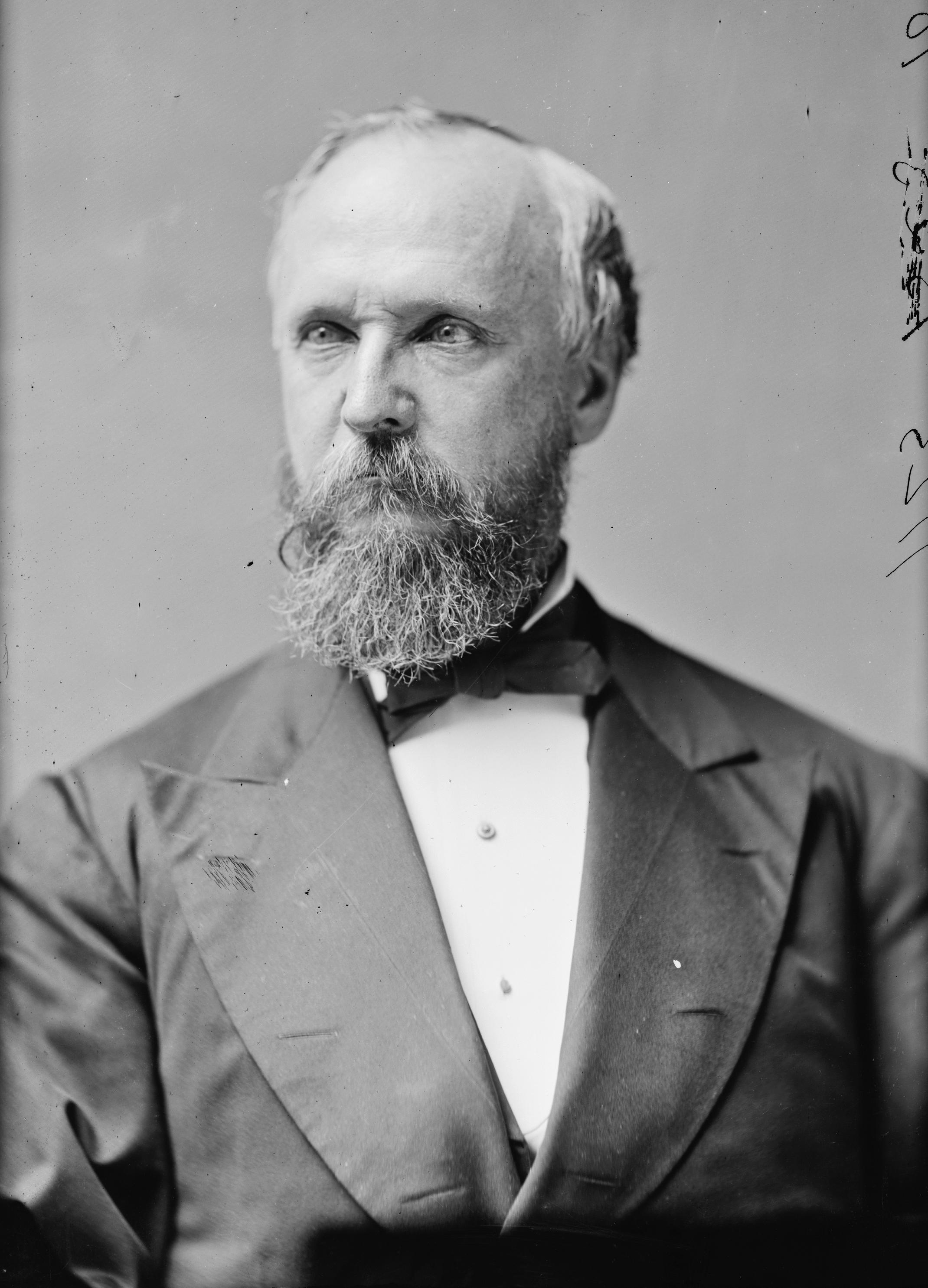 Thomas J. Robertson. Library of Congress description: "Robertson, Hon. Thomas James of S.C.".